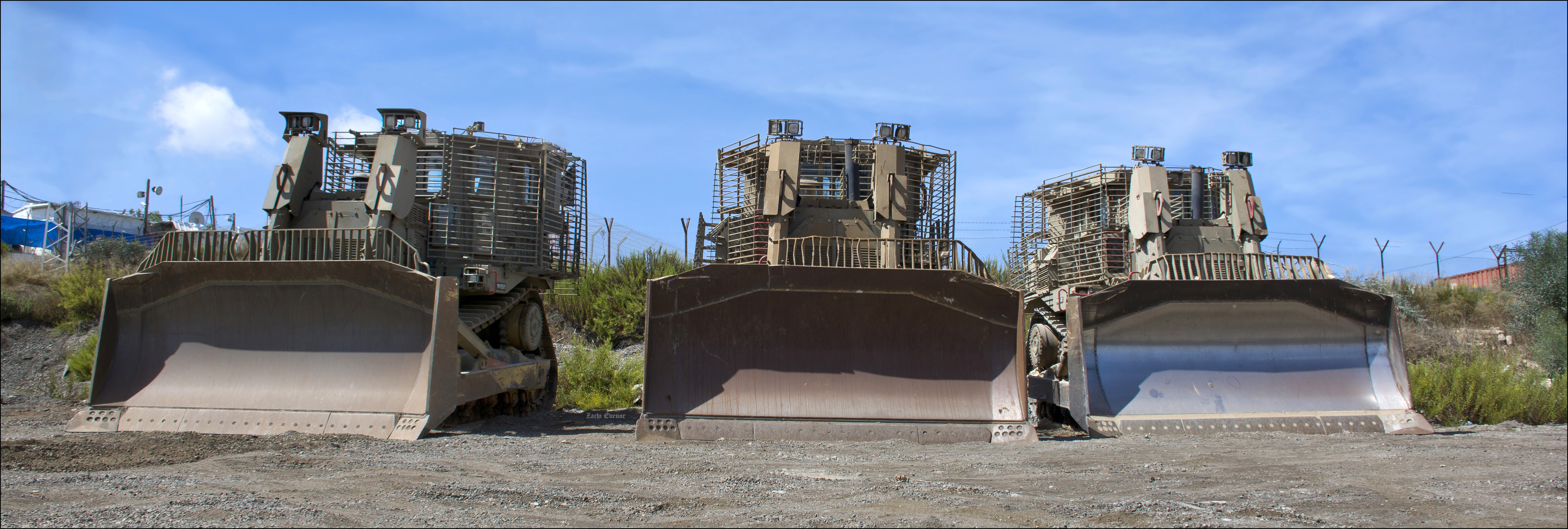 IDF Caterpillar D9 "Doobi" armored bulldozer. The IDF uses the armored version of Caterpillar D9 tracked-type tractor bulldozer for combat engineering and counter-terrorism operations. The Israeli armor kit proved itself very effective against terrorist weapons, a specially against large "belly charge" IEDs and roadside bombs. Military experts cite the IDF D9 as a key factor in keeping IDF casualties low in the ongoing war against Palestinian terrorism.